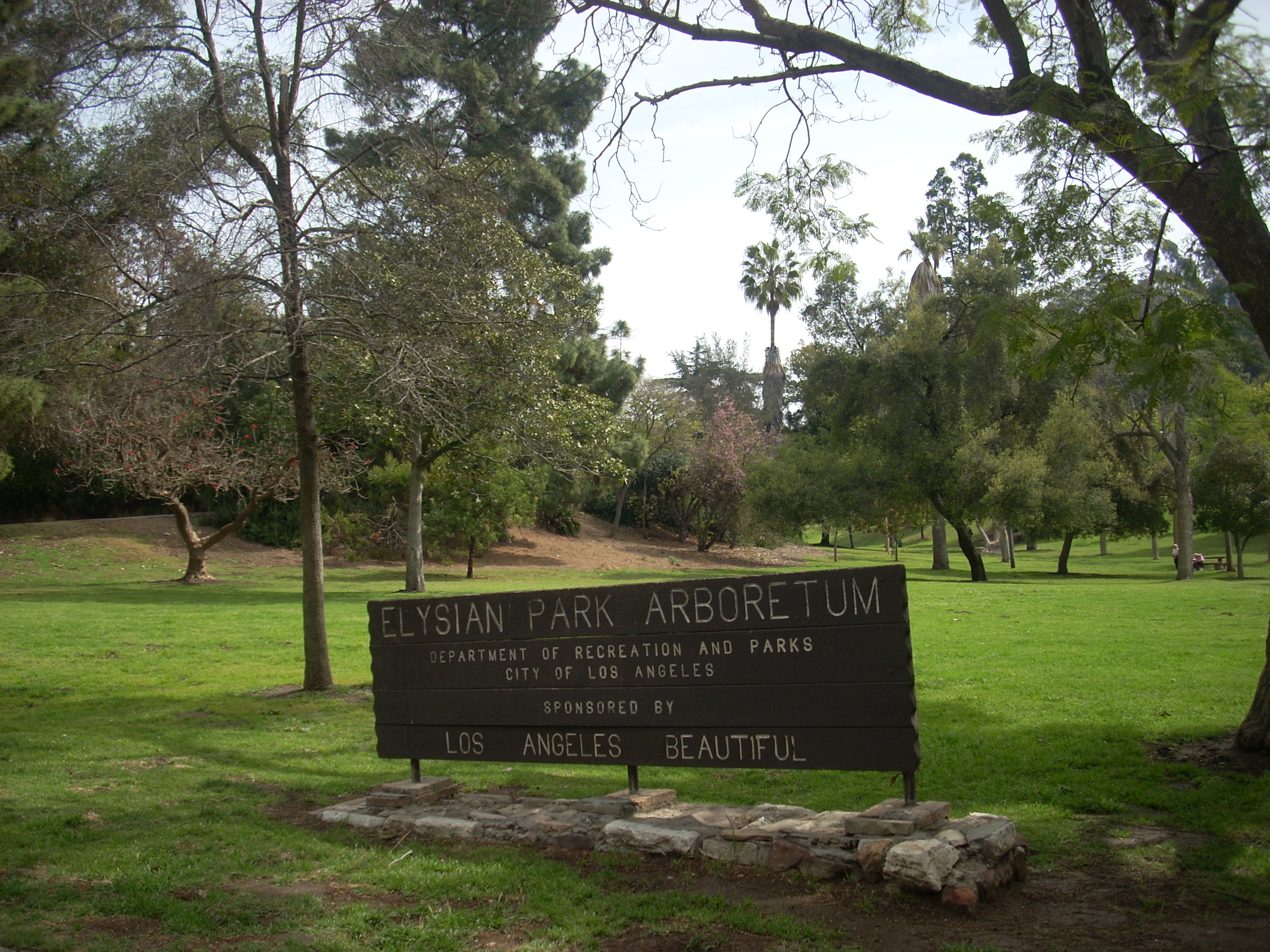 Chavez Ravine Arboretum (Elysian Park Arboretum) — park sign in Elysian Park, Central Los Angeles, California.